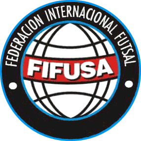 Logotype FIFUSA-AMF (1971-2003)